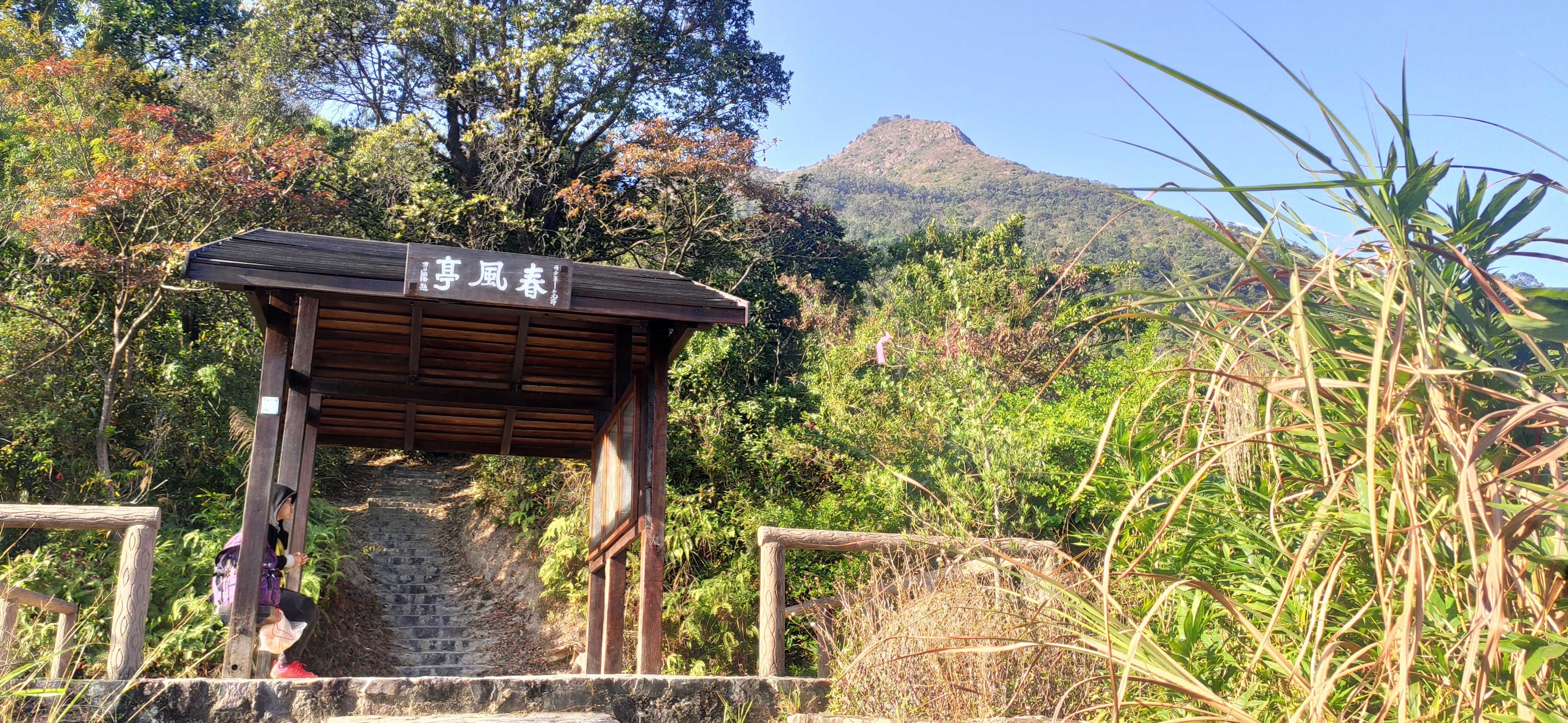 Spring Breeze Pavilion with Hsien Ku Fung summit